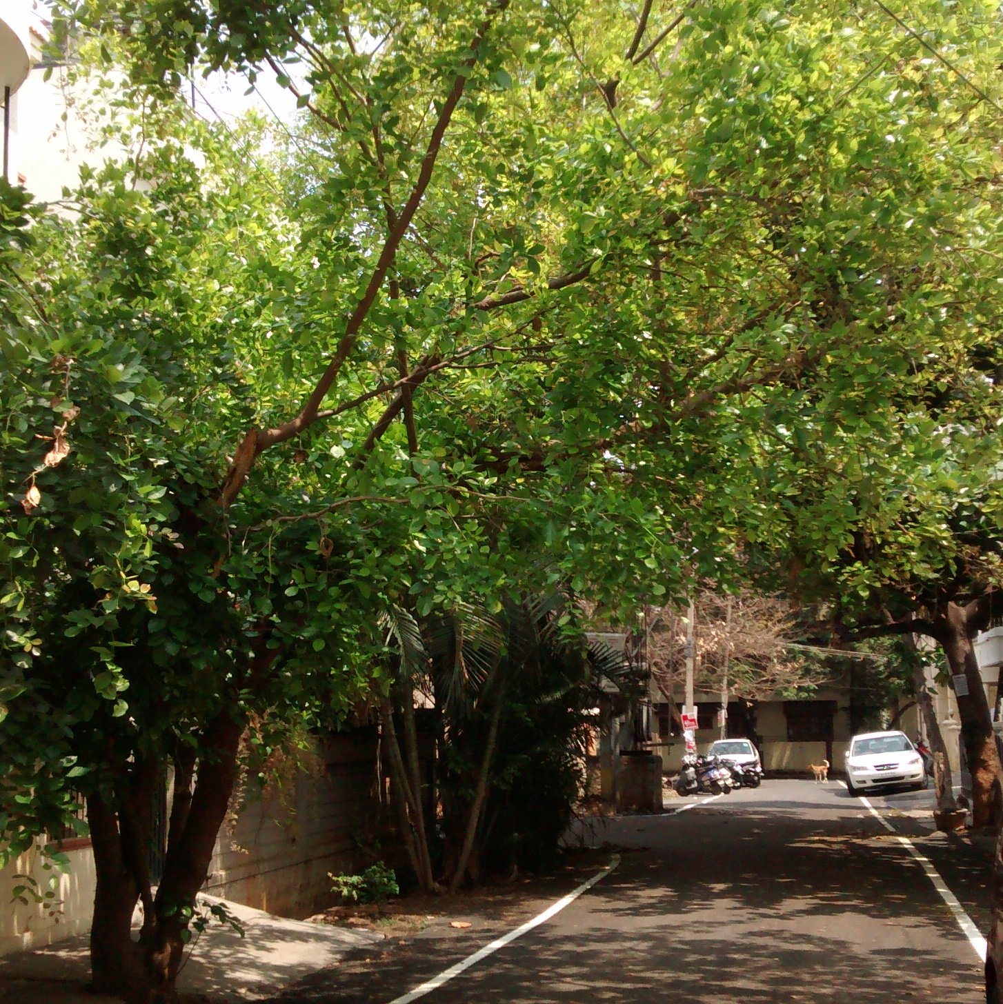 A street in a residential part of BTM Layout taking during spring when the leaves are bursting forth